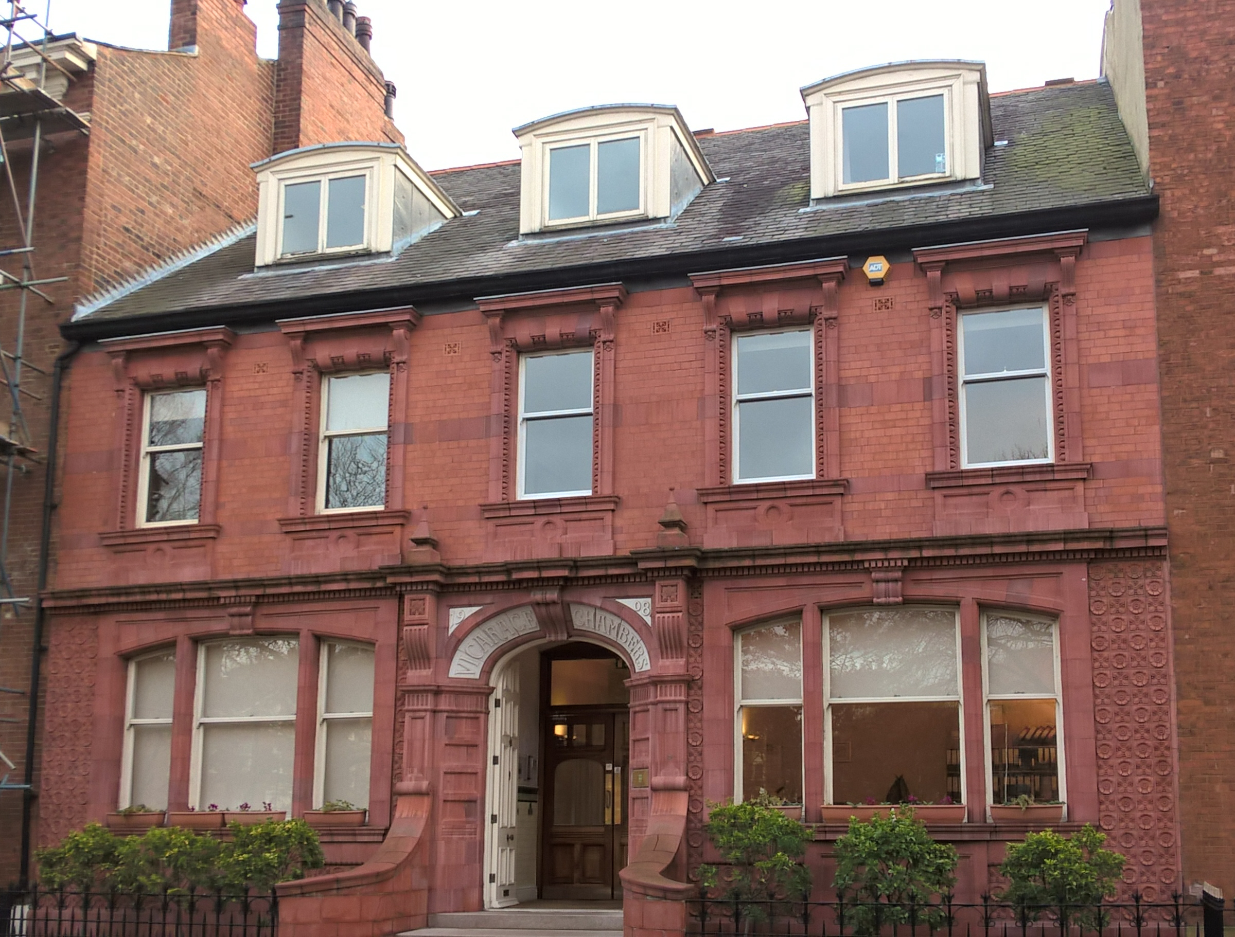 Vicarage Chambers, 9 Park Square East, Leeds LS1 2LH. From 1908, on the site of a former vicarage for St Paul's Church (also demolished). Red brick and terracotta.